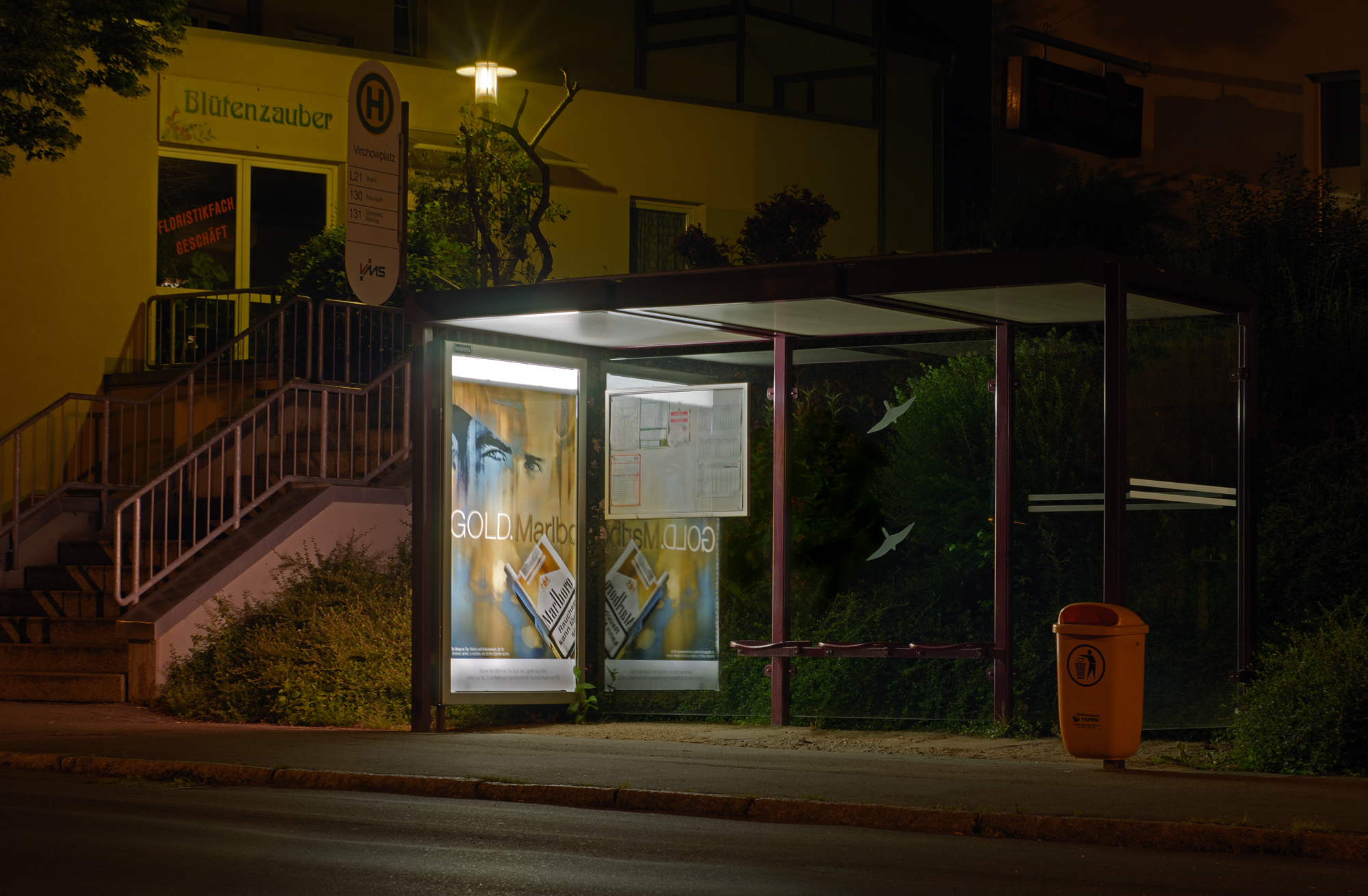 This image shows an illuminated bus stop at nigth in Zwickau, Germany. It has been made of five differently exposured takes that were combined using HDR techniques.